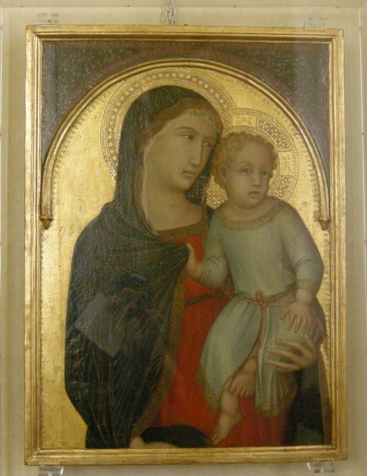 Madonna col bambino by Pietro Lorenzetti